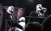 Insane Clown Posse